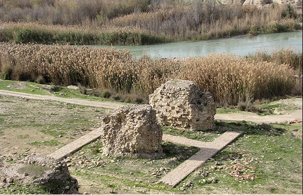 ارجان، بهبهان